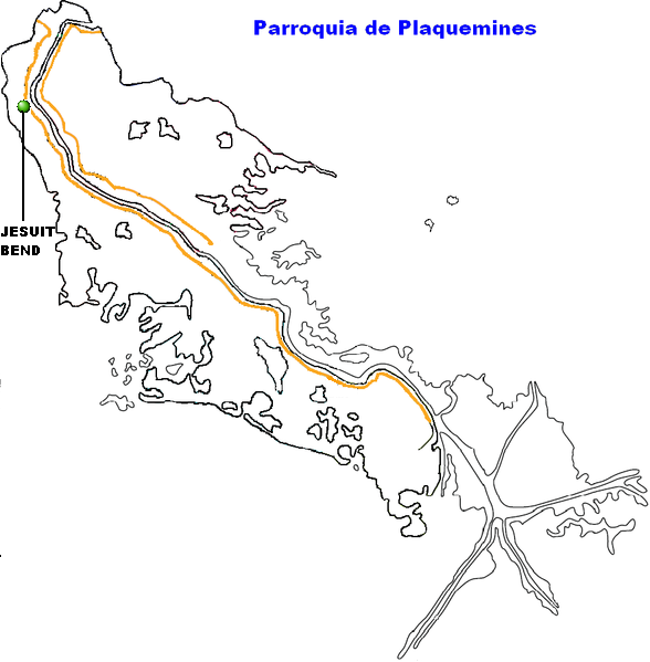 Jesuit Bend Map Locator